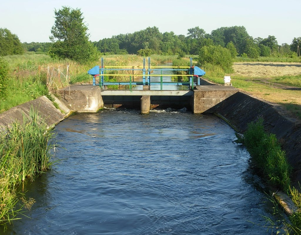 Górnonotecki Canal